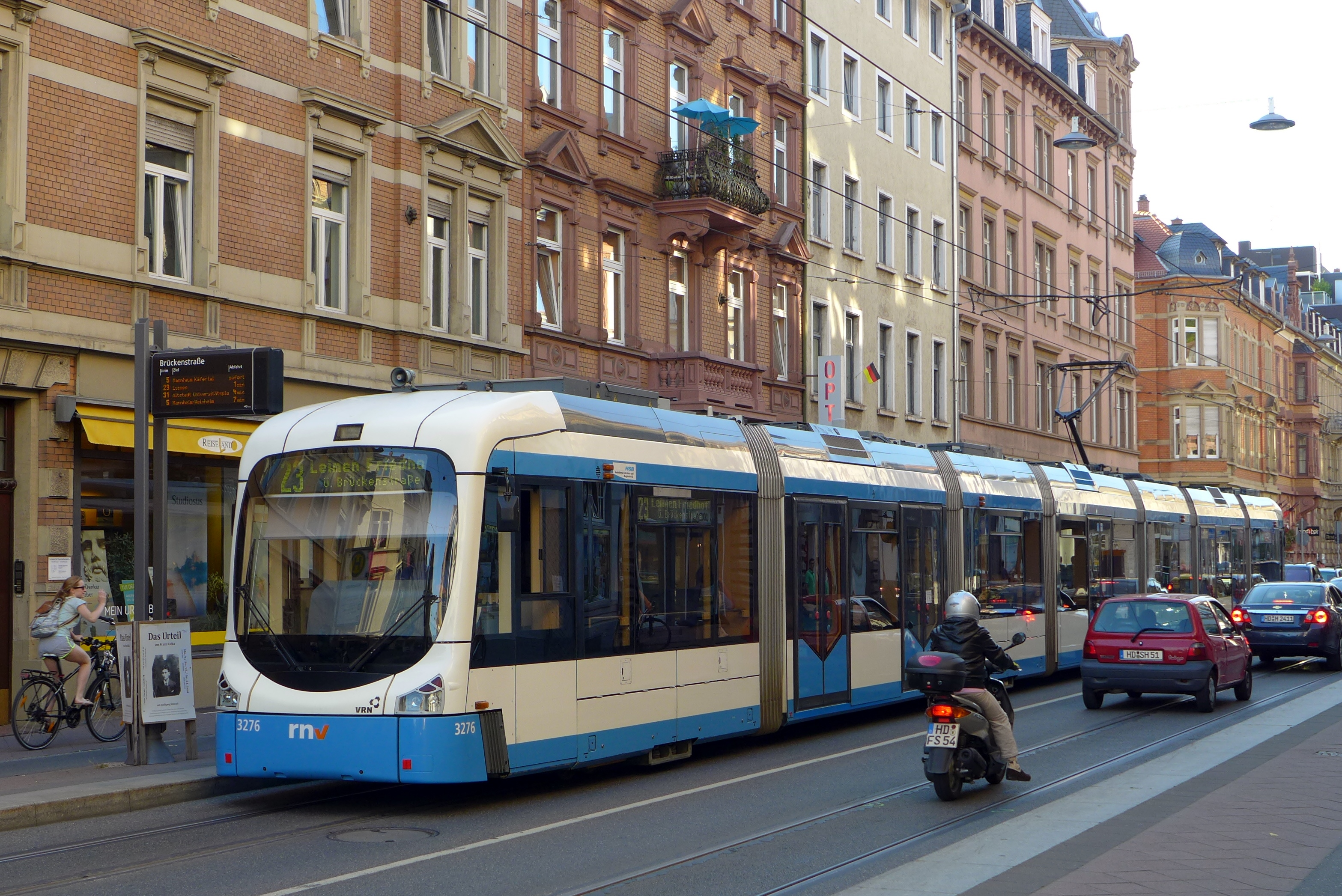 Rhein-Neckar-Verkehr (RNV) tram no. 3276 with a southbound line 23 service at the Brückenstraße tram stop, in Heidelberg, Germany.